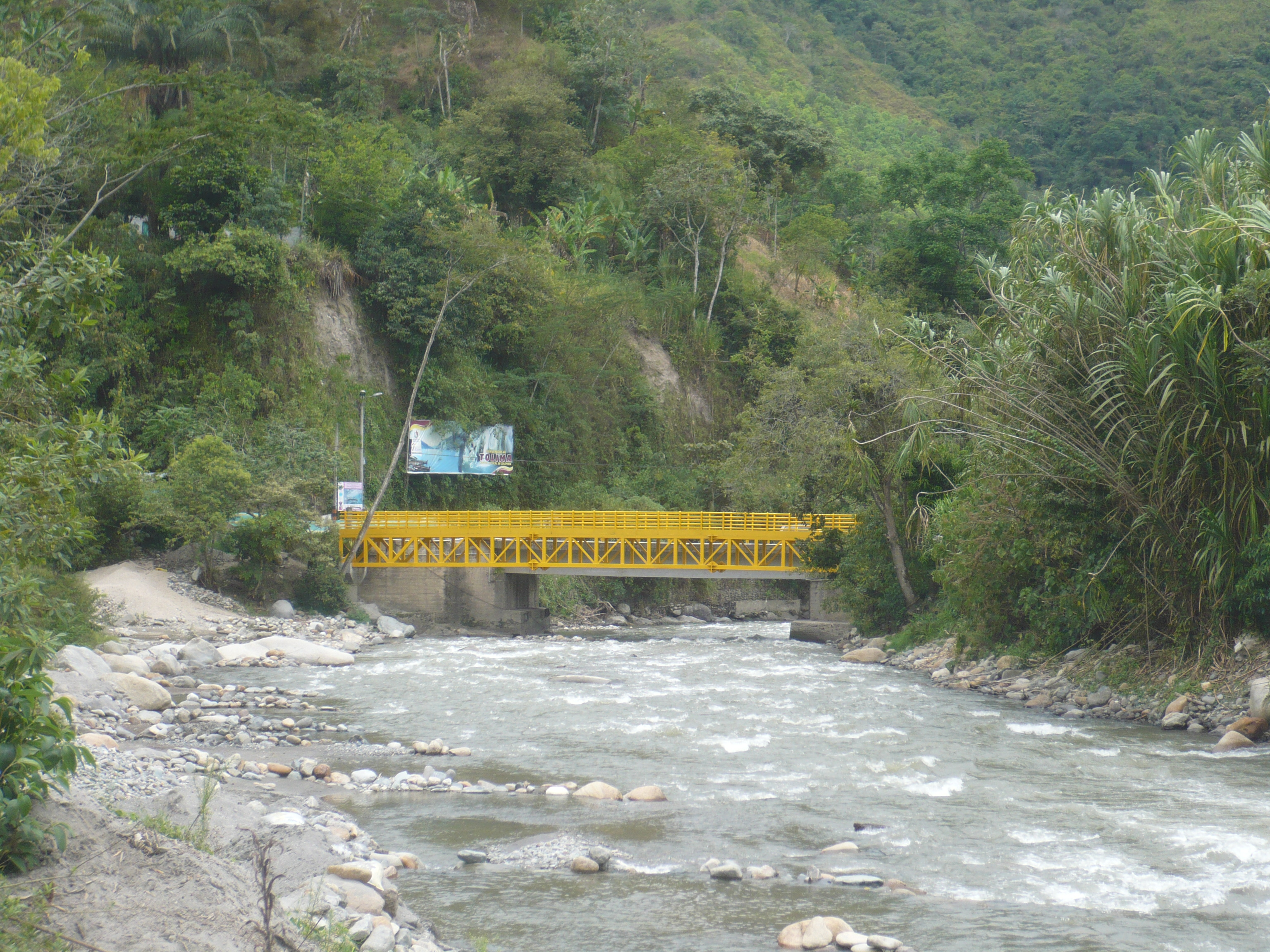 Coello River in Coello-Cocora town in Tolima Department, Colombia